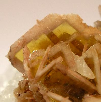 Baryte Locality: Ray Mine, Scott Mountain area, Mineral Creek District (Ray District), Dripping Spring Mts, Pinal County, Arizona, USA (Locality at ) Size: thumbnail, 2.7 x 1.9 x 1 cm Barite RARE LOCALITY PIECE! Very interesting cluster of intergrown blades (largest to .5 cm) that exhibit an excellent zoning from the middle to the edges. The one blade that has any real damage is hardly noticeable. With such good luster and fine zoning, this is an excellent specimen.